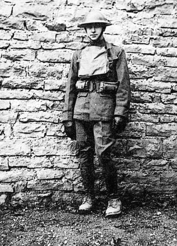 U.S. Army photograph of Dr. William Middleton in combat garb